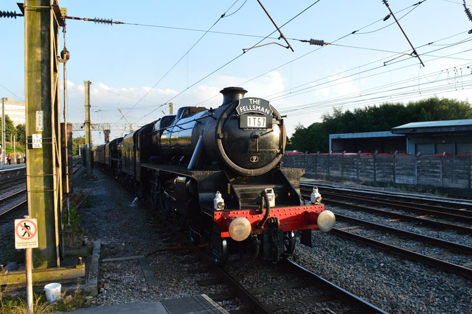 LMS Black 5 no 44932 & sister 45231 The Sherwood Forester arriving into Preston with the 1T57 Fifteen Guinea Fellsman on Wed 7th Aug 2013.